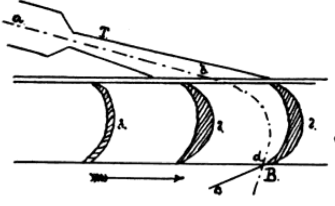 A section of an action turbine showing the nozzle and the blades